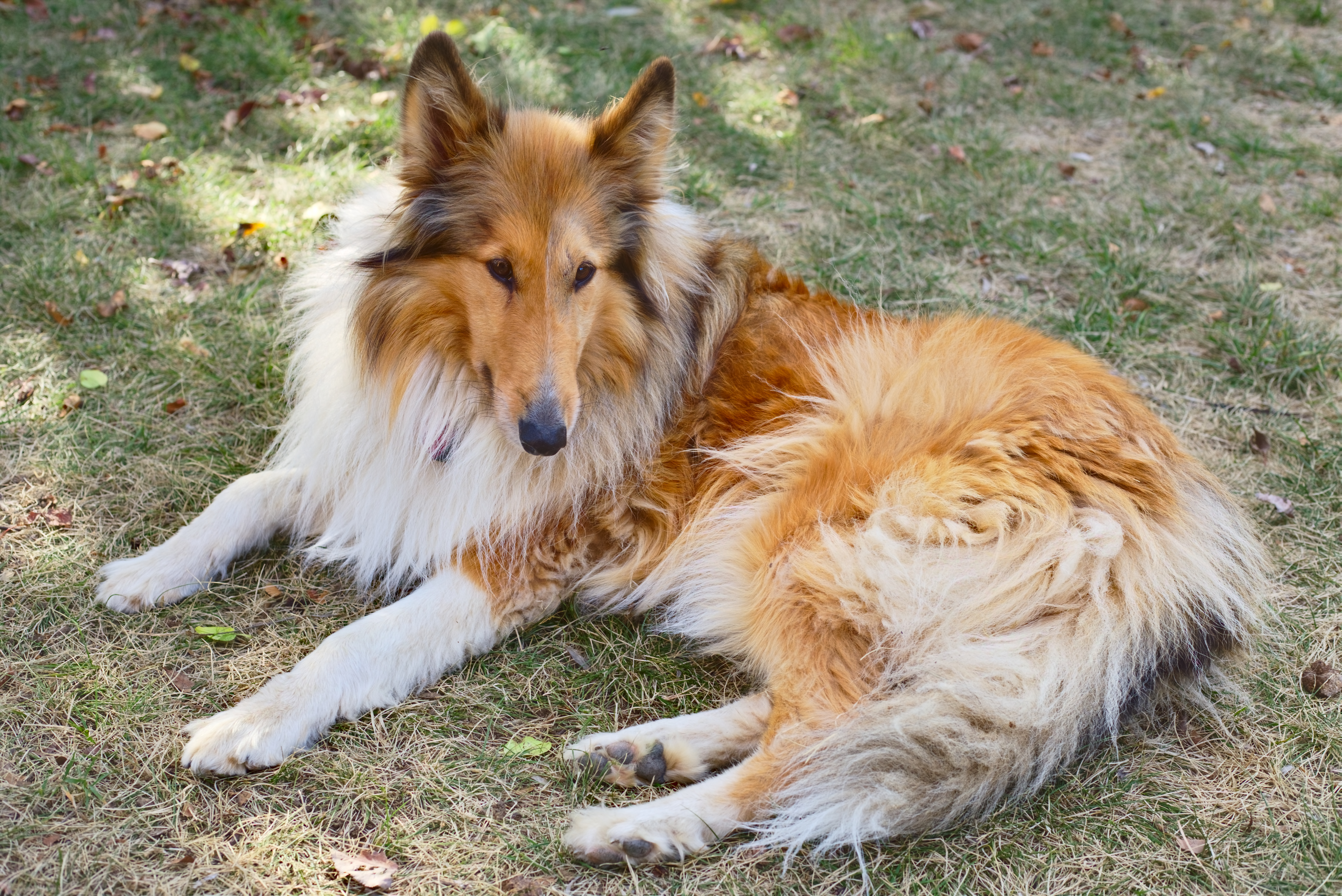 A rough collie in a reclining pose. Canberra, 2016.